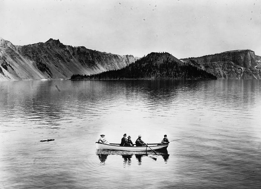 Boat on Crater Lake with Wizard Island in background. Oregon, USA.